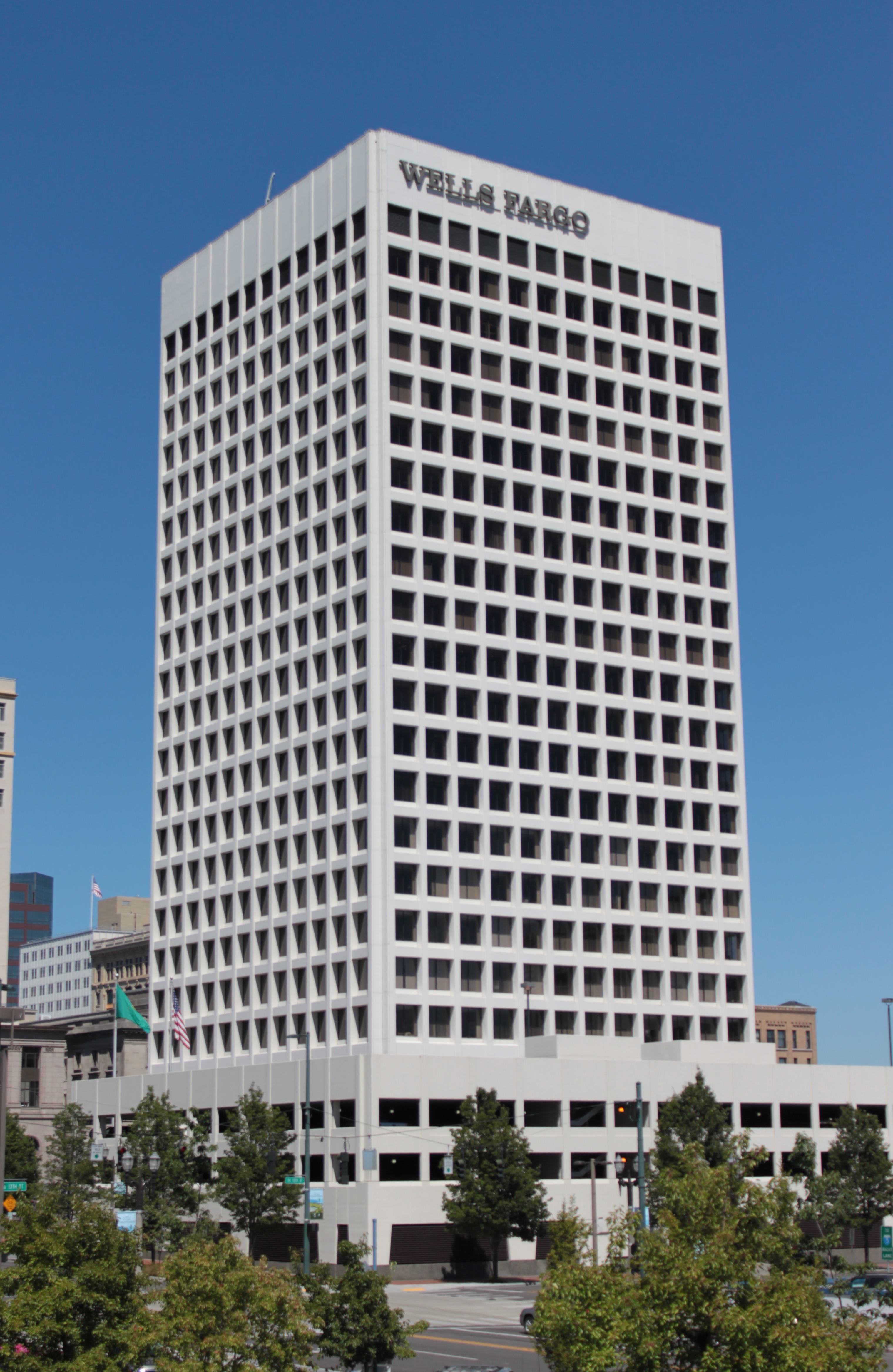 The Wells Fargo Plaza, the tallest building in Tacoma, Washington, seen from Commerce Street.